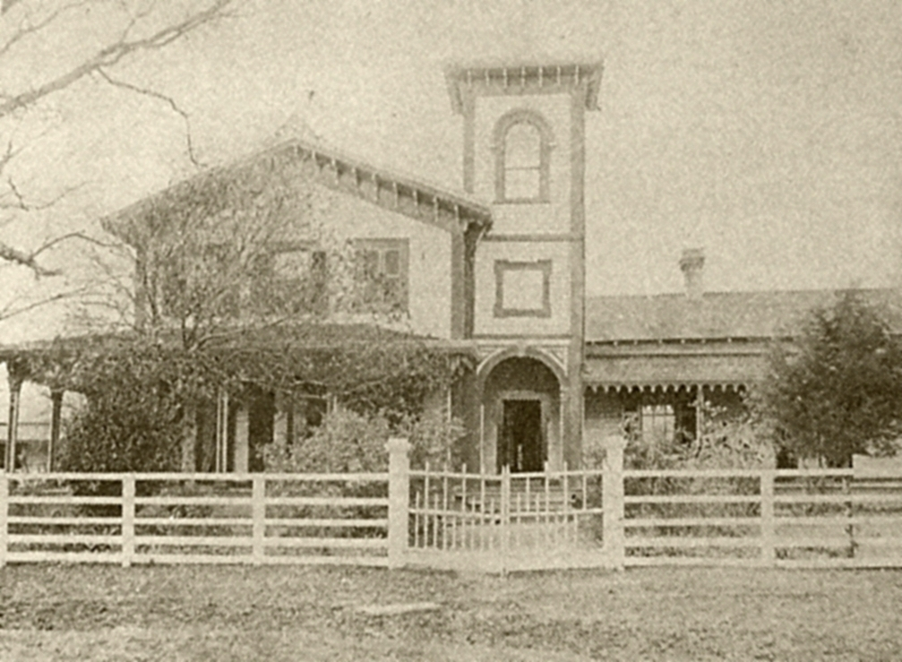 Hawthorne plantation house as it appeared in 1898 — in Prairieville, Hale County, Alabama. It was built in 1835, and later remodeled in the Italian Villa style seen here. It is the only remaining Italianate style house in Hale County, Alabama. This part of Hale County was taken from Marengo County when Hale was created in 1867.